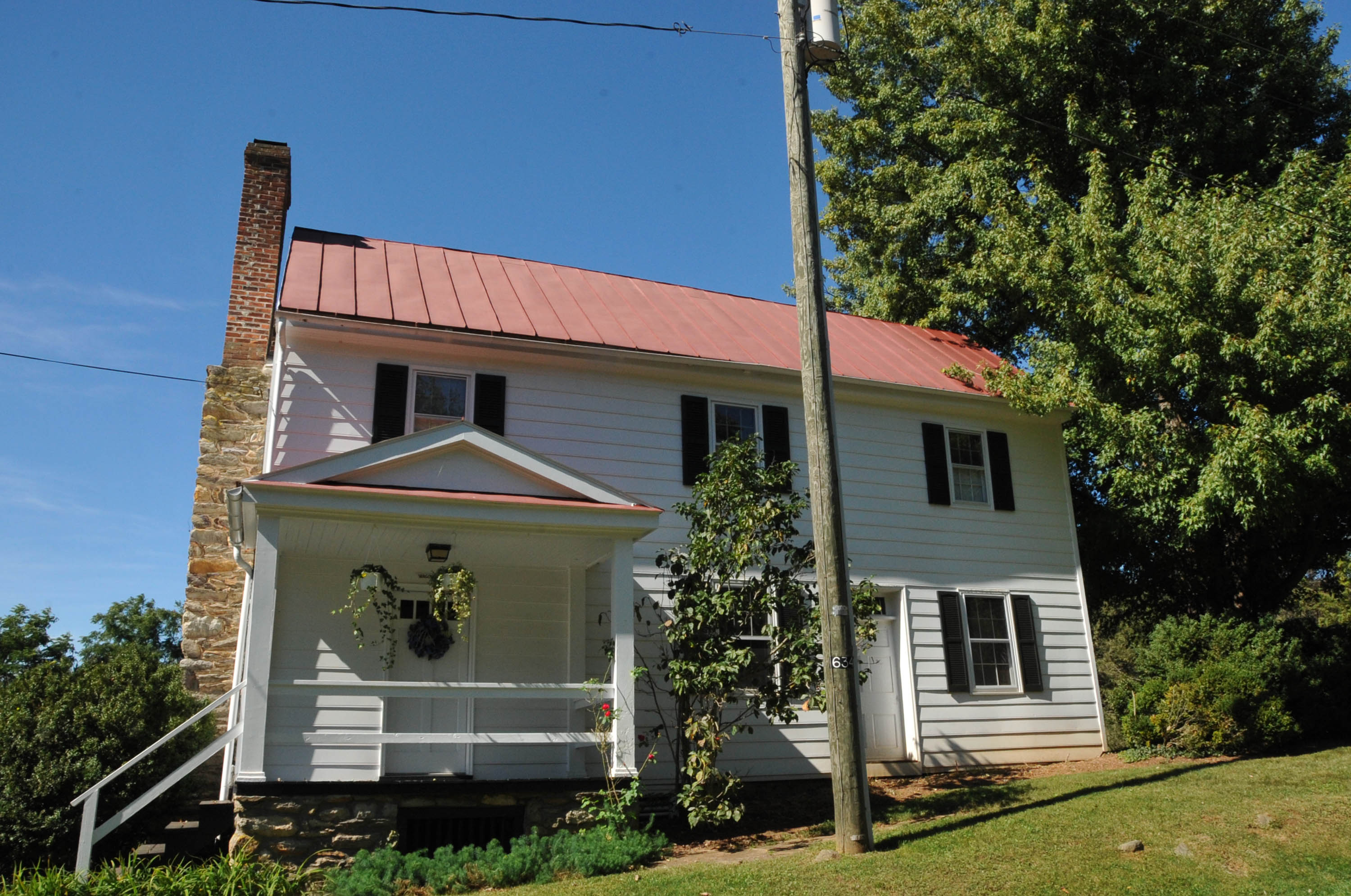 WAGONER’S STAND – CIRCA 1820; 634 FEDERAL STREET